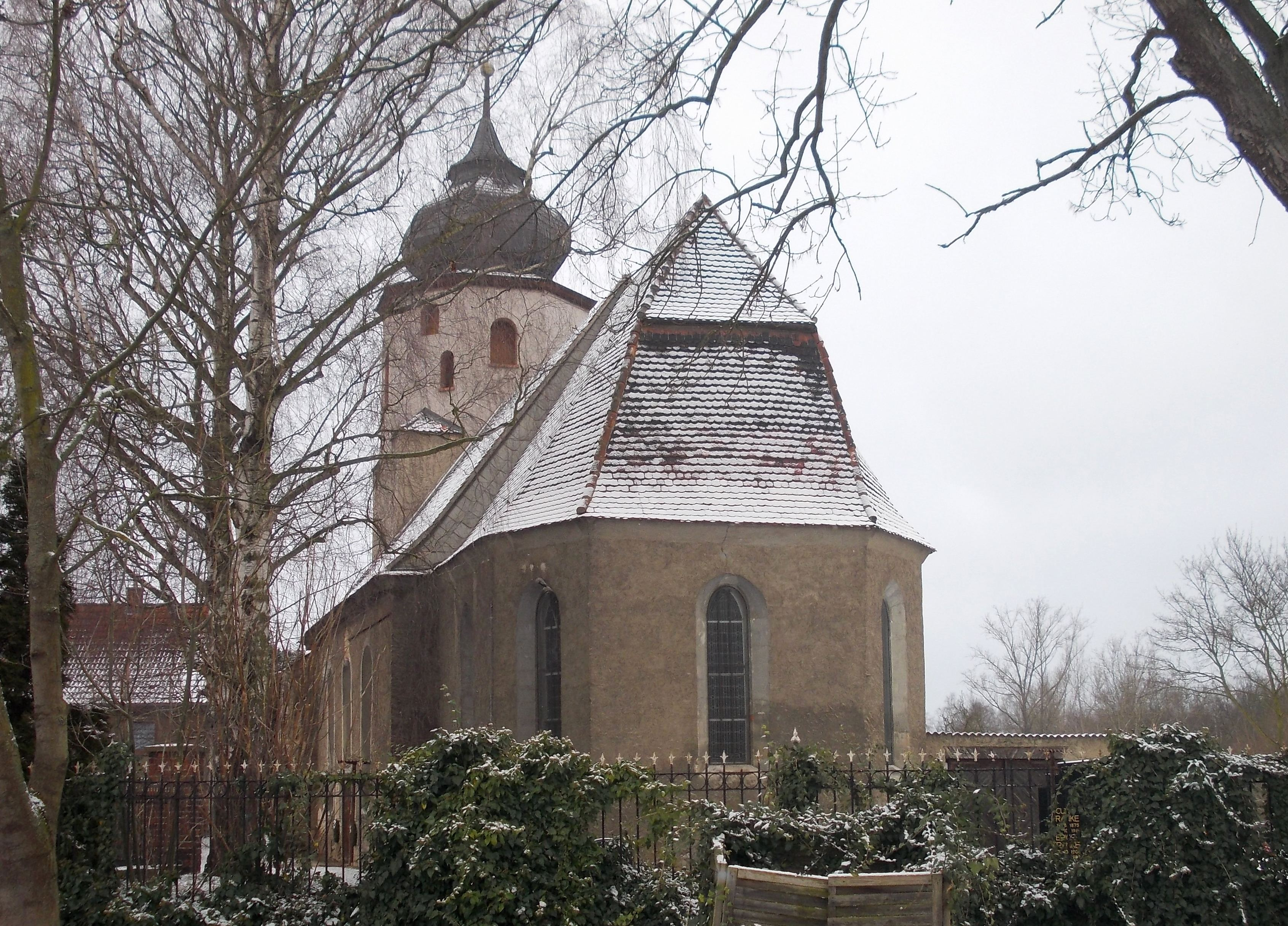 St. Barbara's Church in Zweimen (Leuna, district: Saalekreis, Saxony-Anhalt)